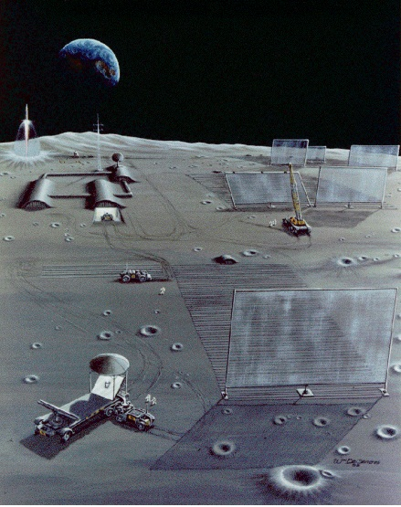 The Lunar Solar Power (LSP) System’s fundamental unit is the power plot depicted in the lower right. A full system producing commercial quantities of power for use on Earth requires tens to hundreds of thousands of power plots. A power plot consists of: a microwave reflector - the upright screen; a field of solar cells - in front of the reflector; and a set of microwave transmitters - under the mound beyond the solar array. Apollo data and studies of building solar power satellites primarily from lunar materials support the concept that solar cells can be made on the Moon from lunar derived materials (NASA 1989). Manufacturing power units on the Moon, note the production machinery, from lunar materials decrease the amount of mass that must be transported to the Moon by at least a factor of 50 and potentially much more.